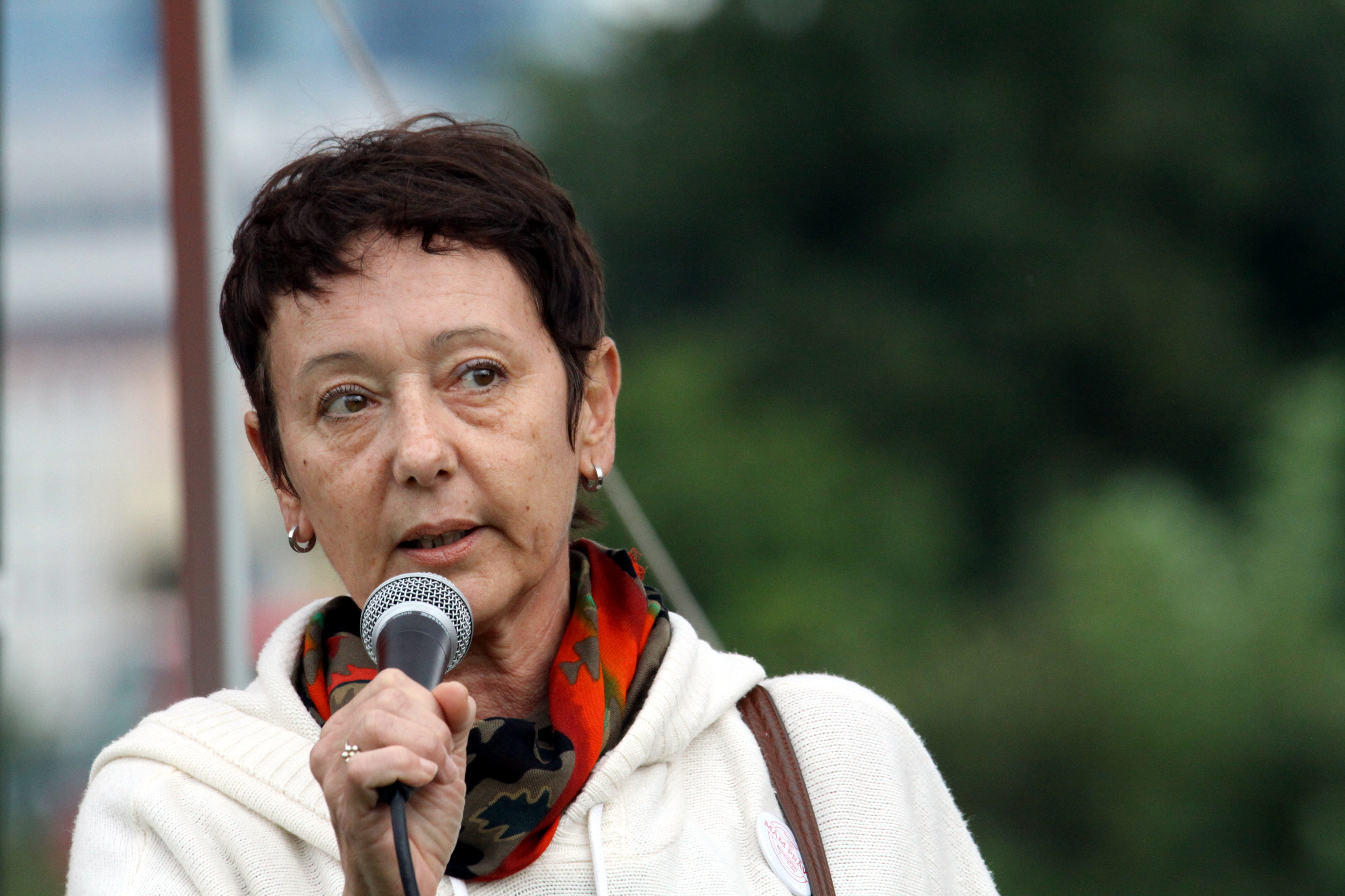 Iva Kotvová, politician and member of Green party of the Czech republic, photographed in Prague, Czech Republic. Personality rights warning Although this work is freely licensed or in the public domain, the person(s) shown may have rights that legally restrict certain re-uses unless those depicted consent to such uses. In these cases, a model release or other evidence of consent could protect you from infringement claims.